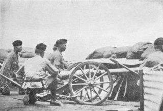 British RML 2.5 inch Mountain Gun employed in the defence of Kimberley during the Second Boer War.